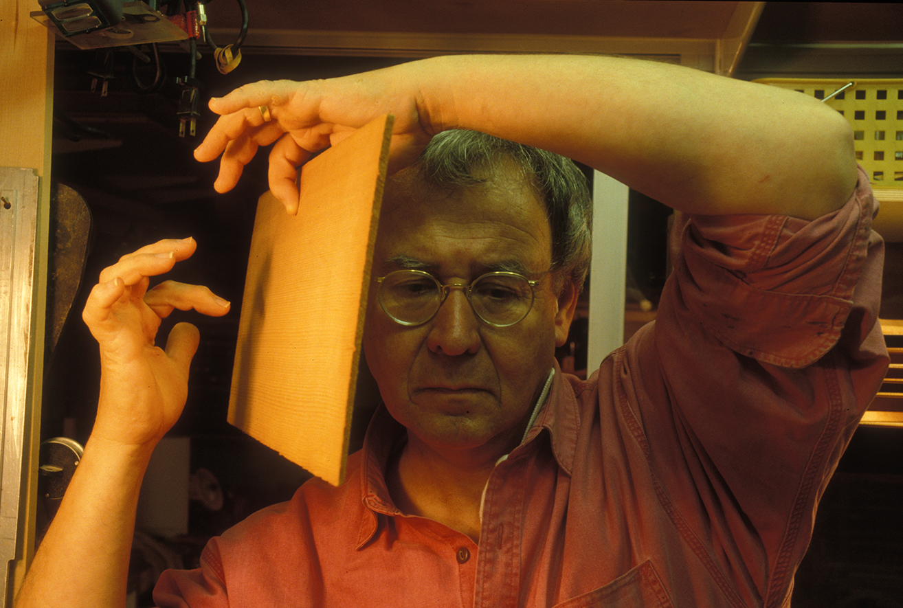 Ervin Somogyi listens to the tone of wood that will become part of a steel string guitar.